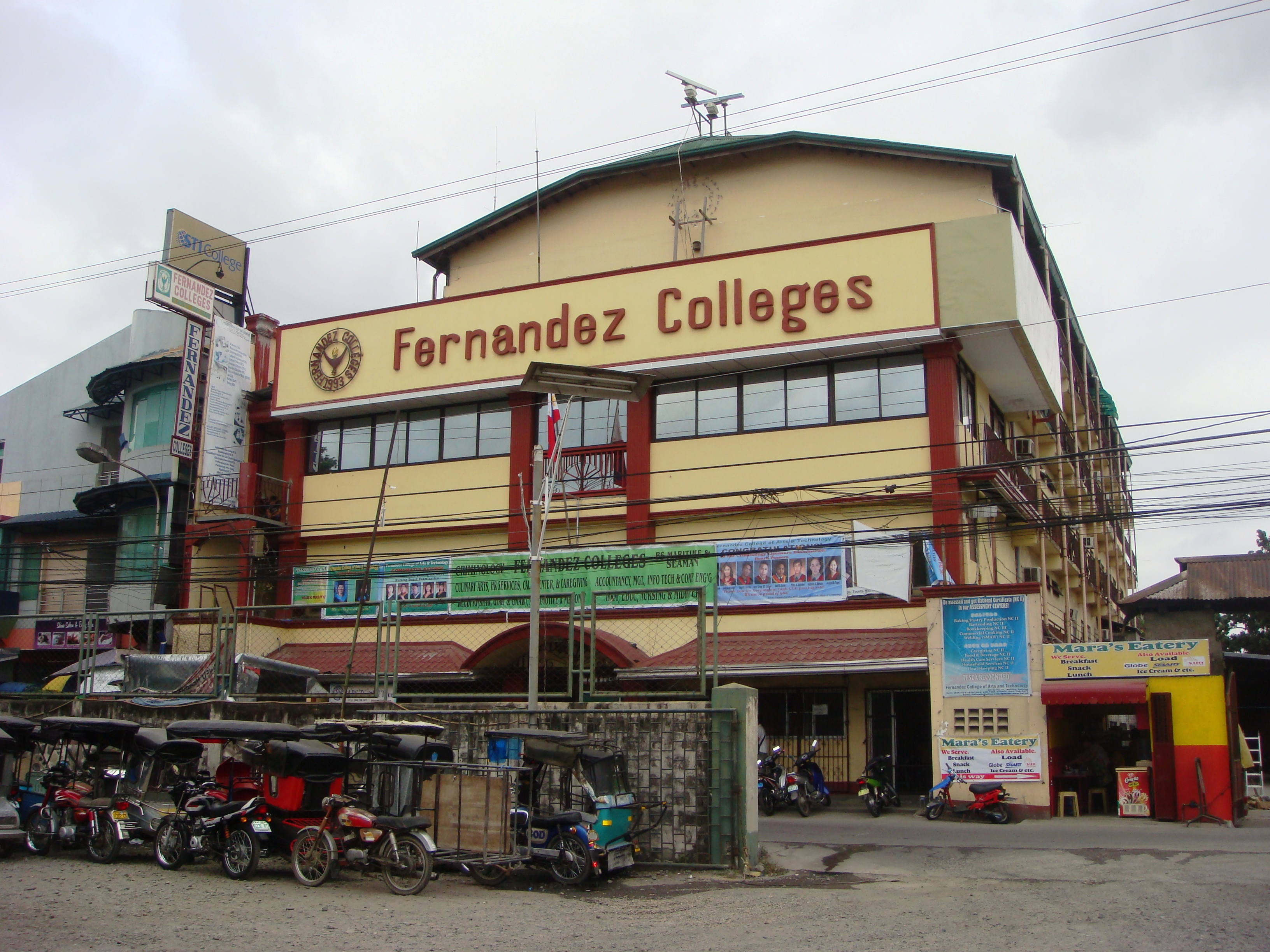 Fernandez Colleges, Gil Carlos St., Baliuag, Bulacan [1].